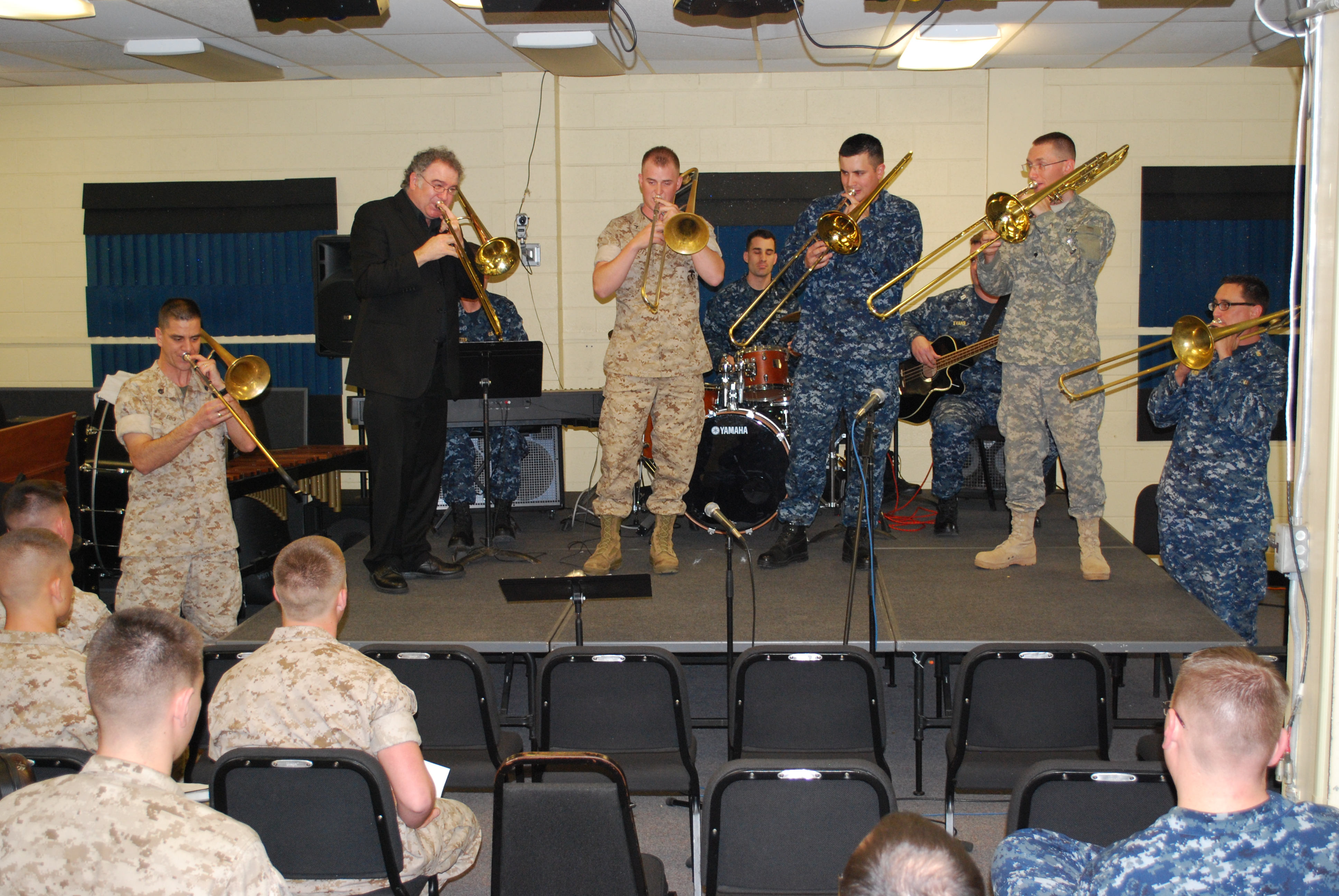 VIRGINIA BEACH, Va. (April 5, 2011) Bob McChesney, guest clinician and recording artist, plays with Sailors, Marines, staff and students at the School of Music at Joint Expeditionary Base Little Creek-St. Story. The School of Music trains instrumentalists and vocalists to join the ranks of the U.S. Navy and Marine Corps band. (U.S. Navy photo/Released)